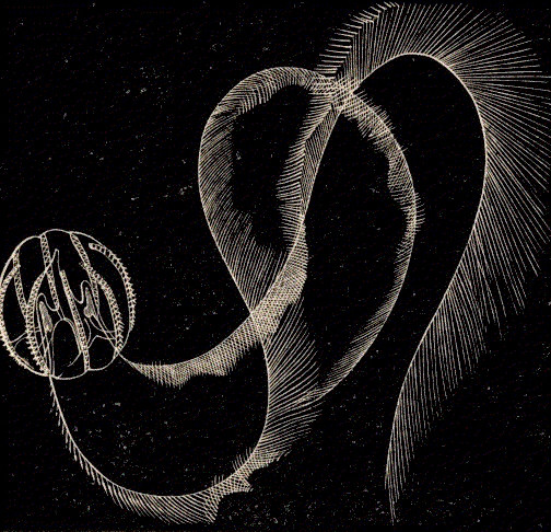 Pleurobrachia rhotodactyla, in motion Subject: Pleurobrachia Tag: Invertebrates